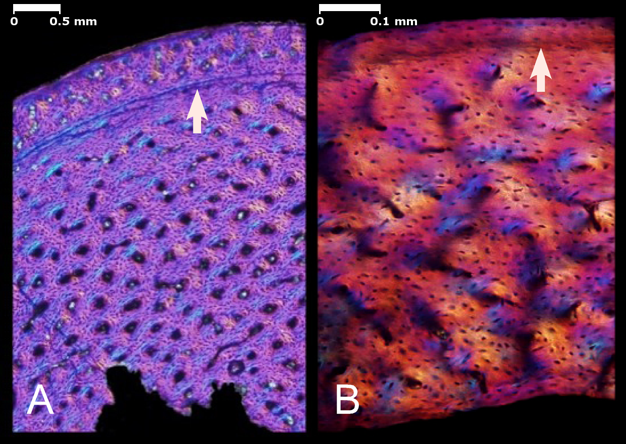 Long bone histology of a non-avialan dinosaur and a Mesozoic bird viewed with polarized microscopy A) The femoral microstructure of the small alvarezsaurrid, Shuvuuia deserti (IGM 100–99) B) Tibial histology of the Early Cretaceous avialan, Confuciusornis sanctus (IVPP V11521) Comparision of both show well-vascularized bone owing to the presence of numerous primary vascular canals (large black structures), and woven fibered matrix characterized by oblong, randomly oriented osteocyte lacunae (numerous small black structures). Arrows point to growth lines in the form of a line of arrested growth (left) and an annulus (right). Scale bars = 0.5 mm (A) and 0.1 mm (B)